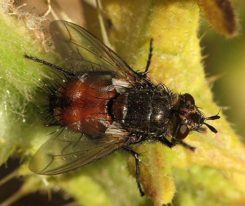 Nowickia sp., family Tachinidae